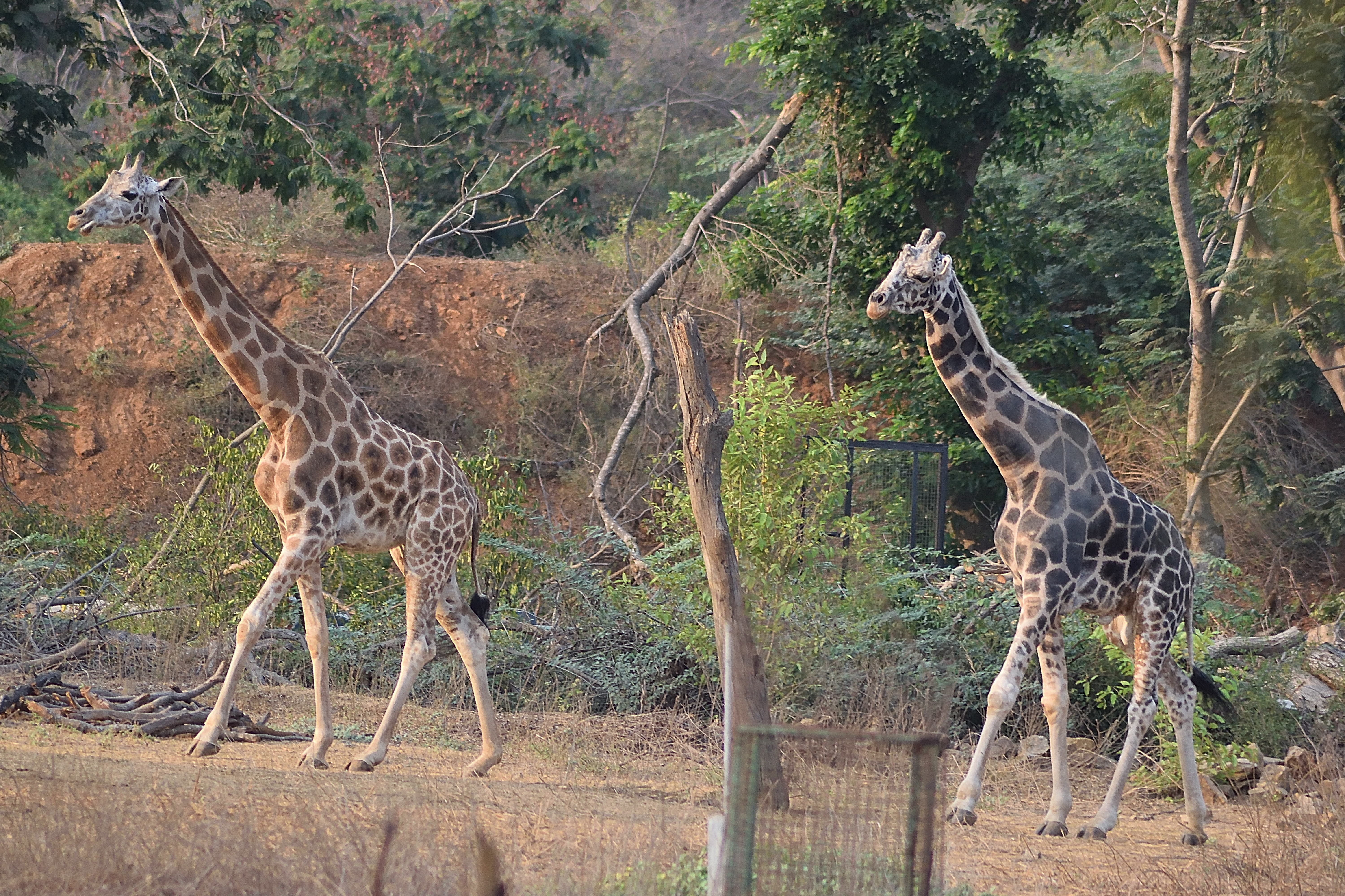 Giraffe - Vandalur Zoo